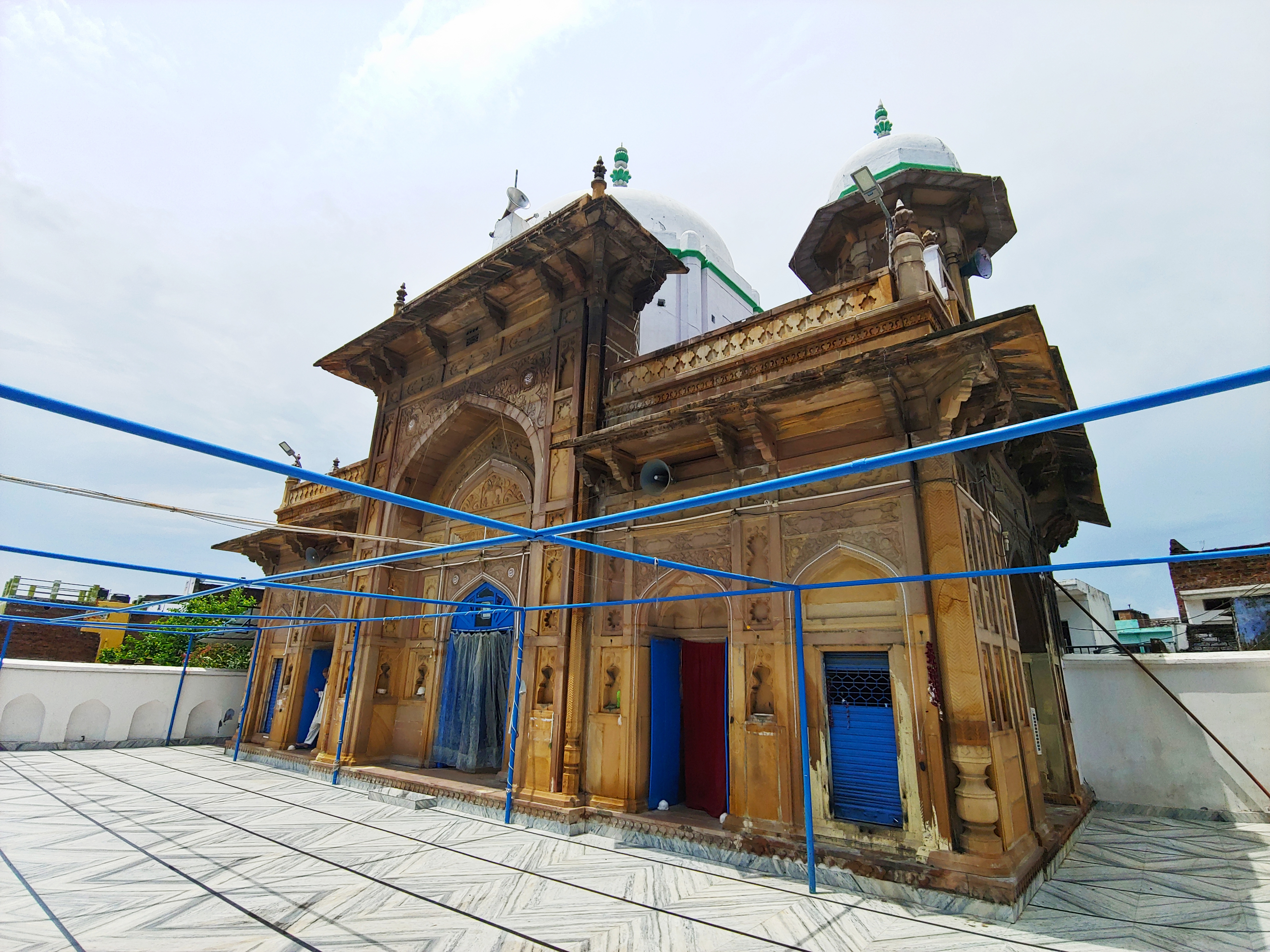 𝐒𝐡𝐚𝐡𝐢 𝐌𝐚𝐬𝐣𝐢𝐝, 𝐃𝐚𝐢𝐫𝐚 𝐒𝐡𝐚𝐡 𝐌𝐮𝐡𝐢𝐛𝐮𝐥𝐥𝐚𝐡 𝐈𝐥𝐚𝐡𝐚𝐛𝐚𝐝𝐢 - 𝐁𝐚𝐡𝐚𝐝𝐮𝐫𝐠𝐚𝐧𝐣, 𝐀𝐥𝐥𝐚𝐡𝐚𝐛𝐚𝐝⁣ ⁣ In the 16th Century, a man was born in Sadarpur village near Khairabad, Sitapur who rose to become the disciple and successor of great sufi saint, 𝐅𝐚𝐫𝐢𝐝𝐮𝐝𝐝𝐢𝐧 𝐆𝐚𝐧𝐣-𝐞-𝐒𝐡𝐚𝐤𝐚𝐫. He was commanded to move to Allahabad by some divine intervention. ⁣ ⁣ This great man settled in the vicinity of Allahabad in what is now known as Bahadurganj and became popular as 𝐒𝐡𝐚𝐡 𝐌𝐮𝐡𝐢𝐛𝐮𝐥𝐥𝐚𝐡 𝐈𝐥𝐚𝐡𝐚𝐛𝐚𝐝𝐢. He established his Khanqah and became a very renowned propagator of Sufism in the region. He was initiated in the branch of 𝐂𝐡𝐢𝐬𝐡𝐭𝐢𝐲𝐚 𝐒𝐚𝐛𝐚𝐫𝐢𝐲𝐚 𝐒𝐢𝐥𝐬𝐢𝐥𝐚 of Sufism. ⁣ ⁣ Shah Muhibullah believed in the philosophy of 𝗪𝐚𝐡𝐝𝐚𝐭 𝐮𝐥 𝗪𝐮𝐣𝐨𝐨𝐝 or the Unity of God. Being a popular sufi saint at the time of Shah Jahan's reign, Shah Muhibullah also became the preceptor of crown prince 𝐃𝐚𝐫𝐚 𝐒𝐡𝐢𝐤𝐨𝐡. Because of his spiritual philosophy which didn't fall in line with Orthodox Islam, 𝐀𝐮𝐫𝐚𝐧𝐠𝐳𝐞𝐛 𝐀𝐥𝐚𝐦𝐠𝐢𝐫 was dead against him and under his regime, issued a 𝐅𝐚𝐭𝐰𝐚-𝐞-𝐪𝐮𝐟𝐫 (or issue of infidelity) against Shah Muhibullah. By the time, Mughal forces were sent to arrest this great sufi saint, Shah Muhibullah passed away while sleeping, to meet his divine Creator.⁣ ⁣ Shah Muhibullah was the founder of Indo-islamic sufi tradition in Allahabad. His daira was the seat of great literary works. In fact, there was a time when his literary works gained huge popularity and acceptance in Persia. ⁣ ⁣ After his death, on 30th July, 1648, Dara Shikoh commissioned the construction of a grand mosque in his Daira which came to be known as 𝐒𝐡𝐚𝐡𝐢 𝐌𝐚𝐬𝐣𝐢𝐝. The structure is made in elaborate mughal style with huge dome and ornated facade. The interior of the mosque has kept the natural colours of its frescoes intact to this day. ⁣It is the oldest Mughal Mosque in Allahabad.